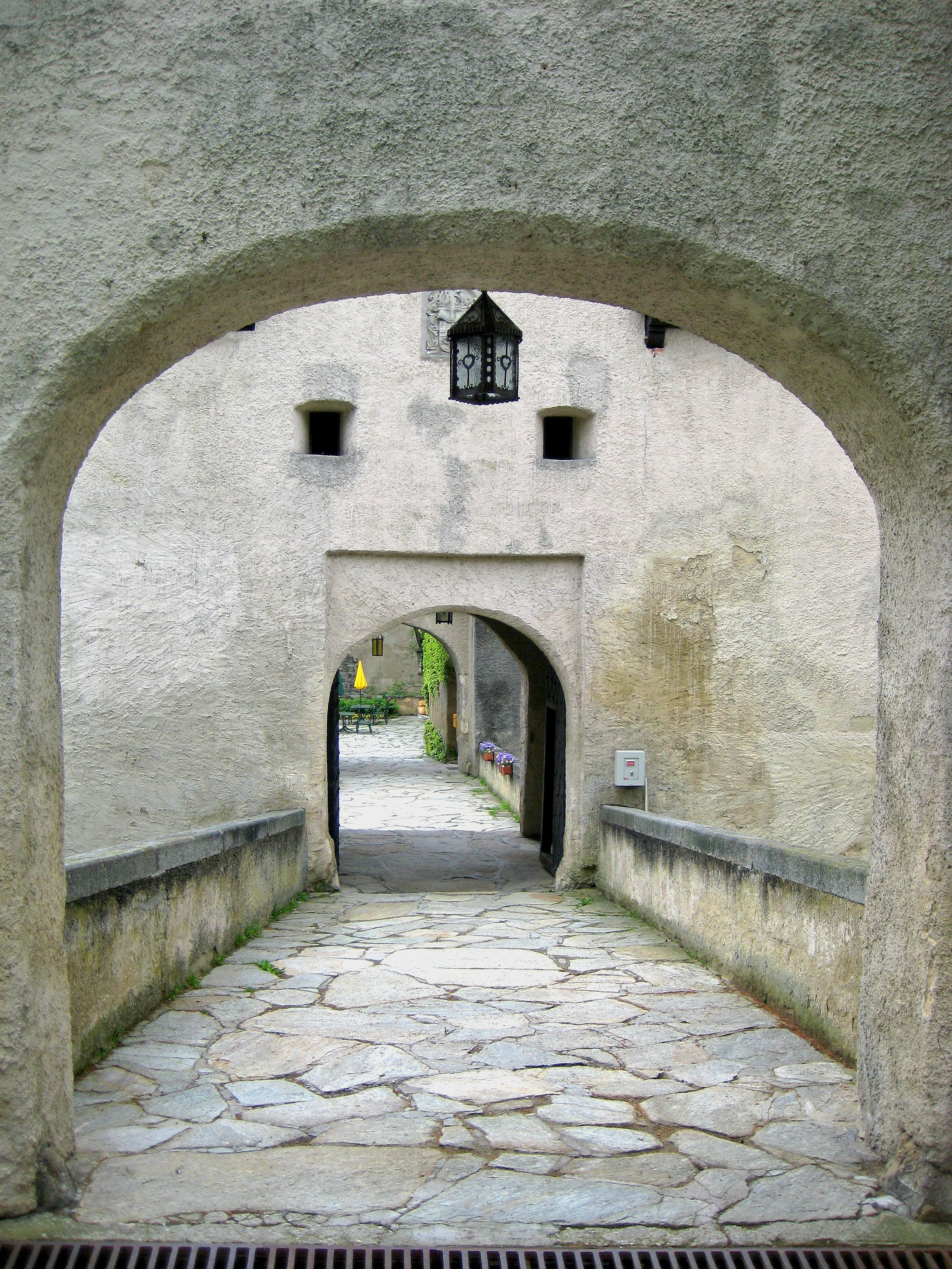 Castle Ottenstein in Lower Austria